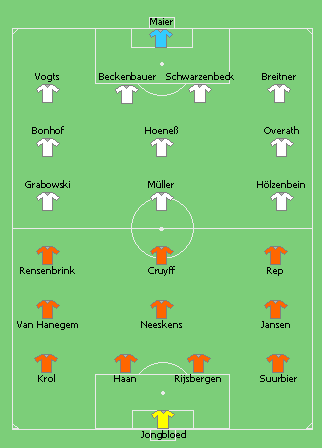 Worldcup Final 1974. Germany vs. Holland 2 - 1.